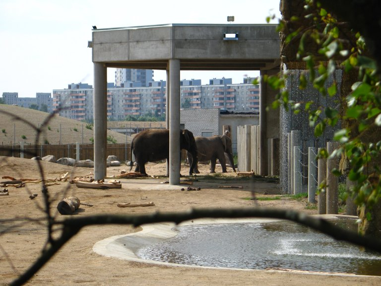 The new elephant enclosure in Tallinn Zoo, August 2006.